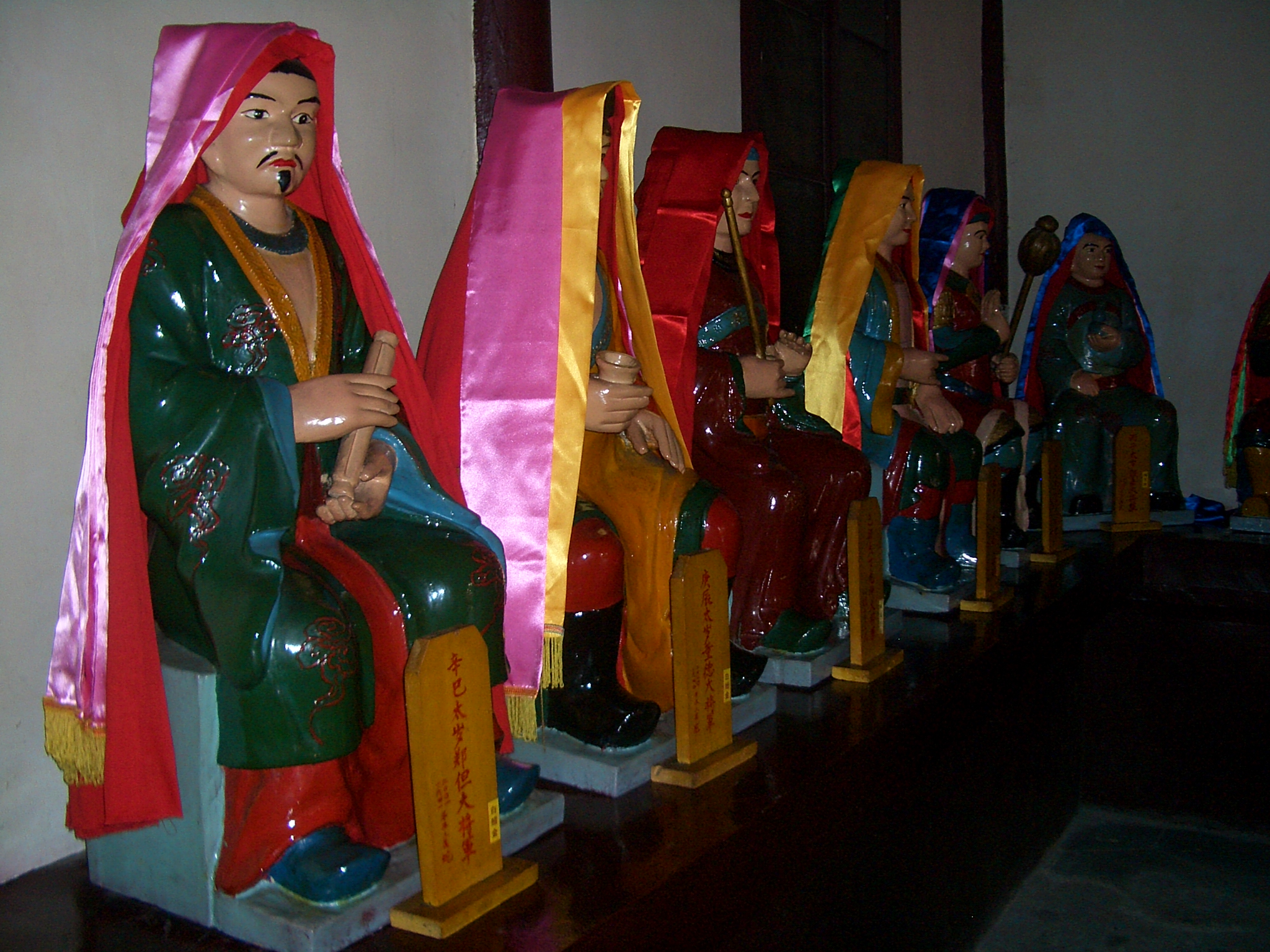 A row of Tai Sui deities in the Hall of the Big Dipper (甲子殿, Jiazi Dian) in Changchun Temple, Wuhan.